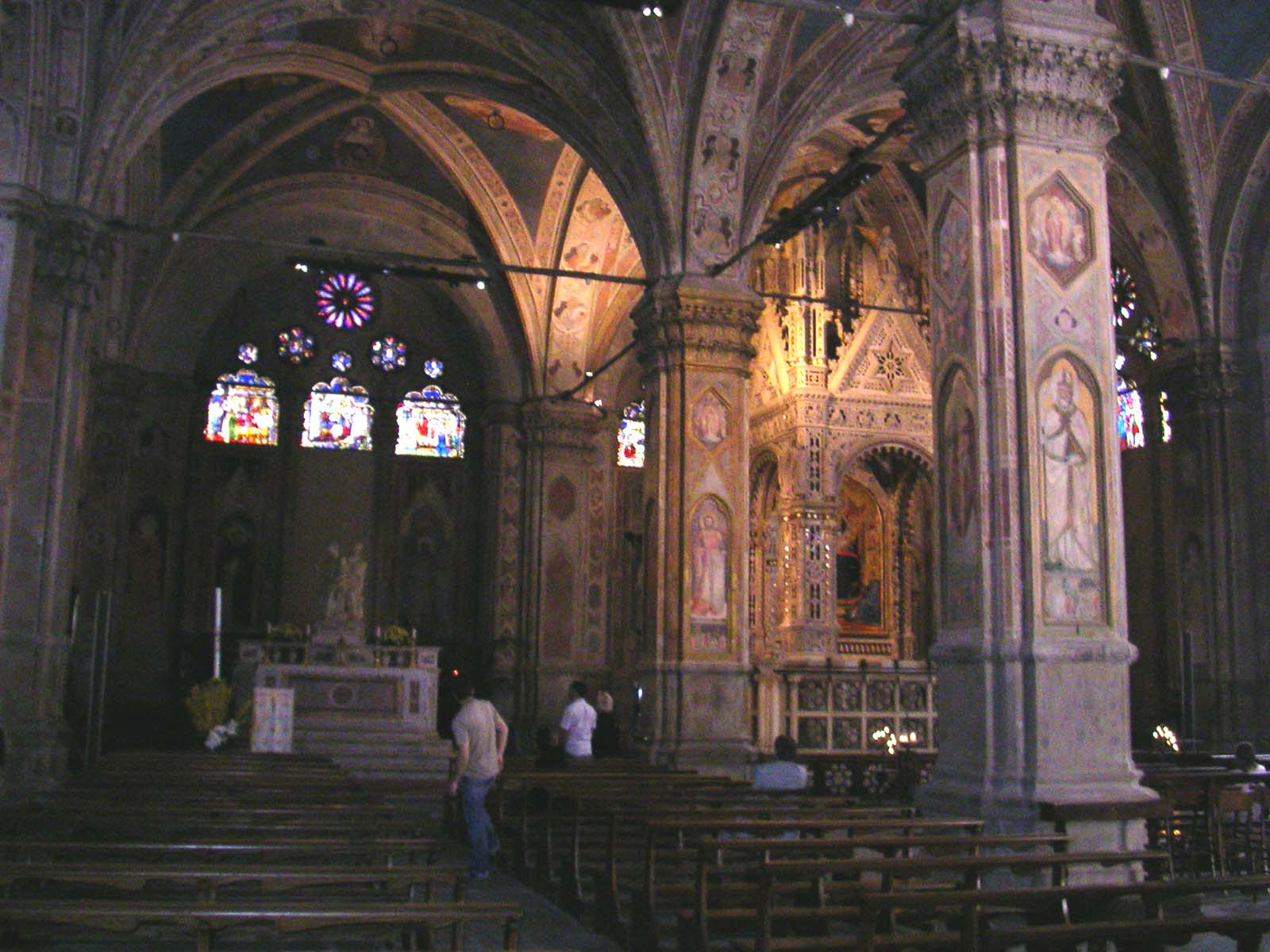 Orsanmichele church, inside view in Florence, Italy